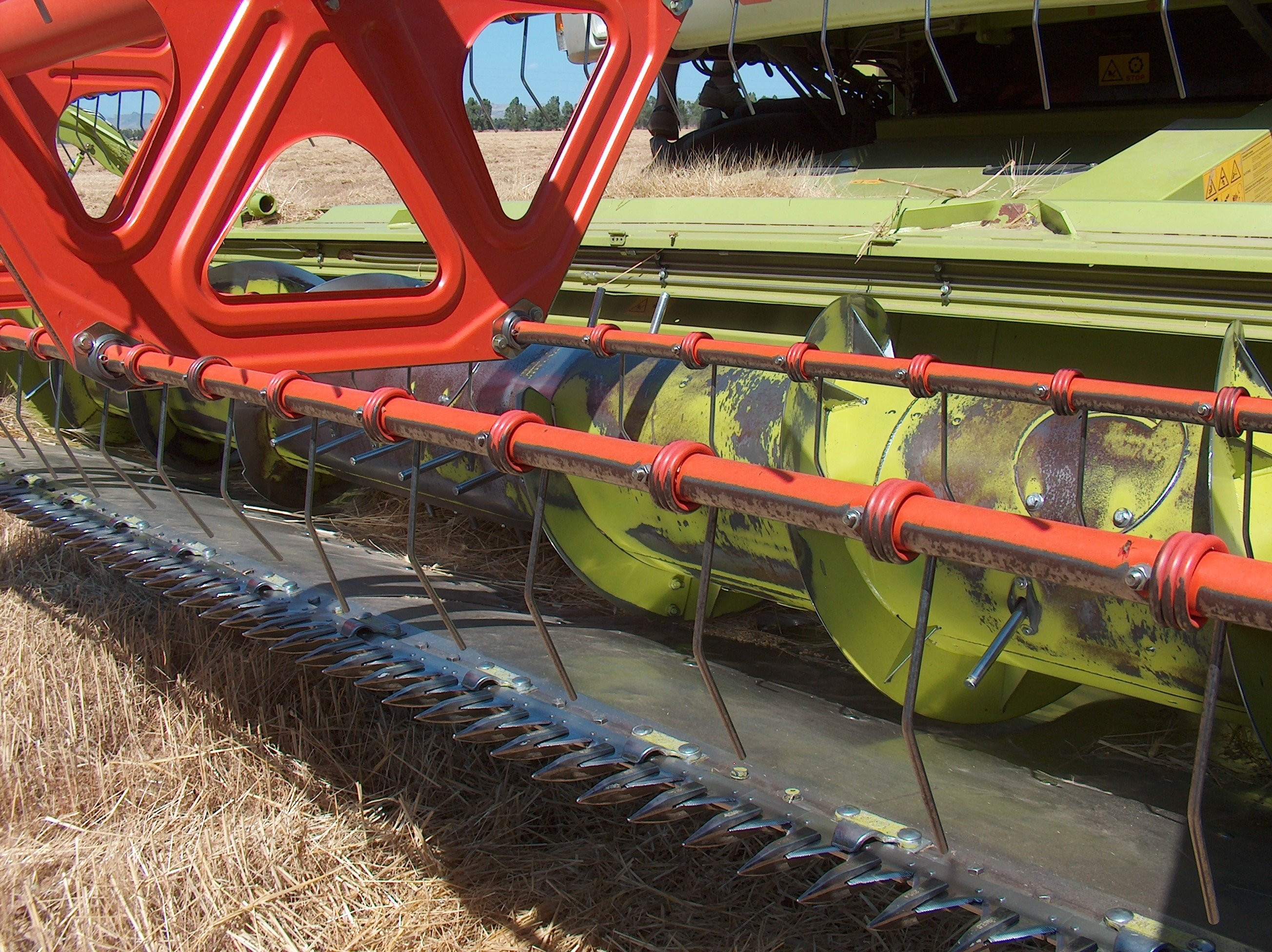 Details of a Claas combine harvester header – Vocational Institute of Agriculture and Environment "Cettolini" of Cagliari (Sardinia, Italy) - Associated School of Villacidro (Sardinia, Italy)